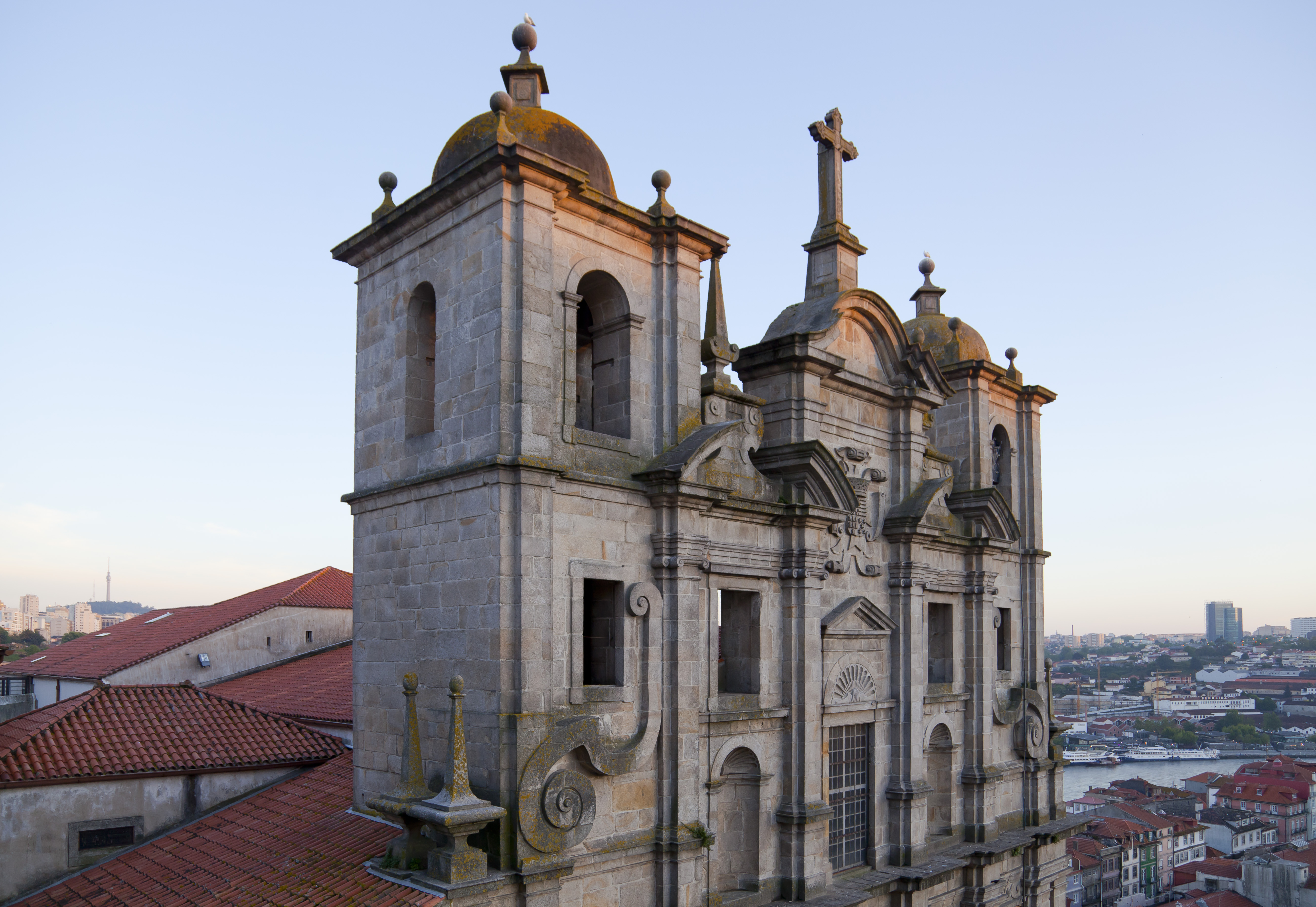 Convento dos Grilos, Porto, Portugal